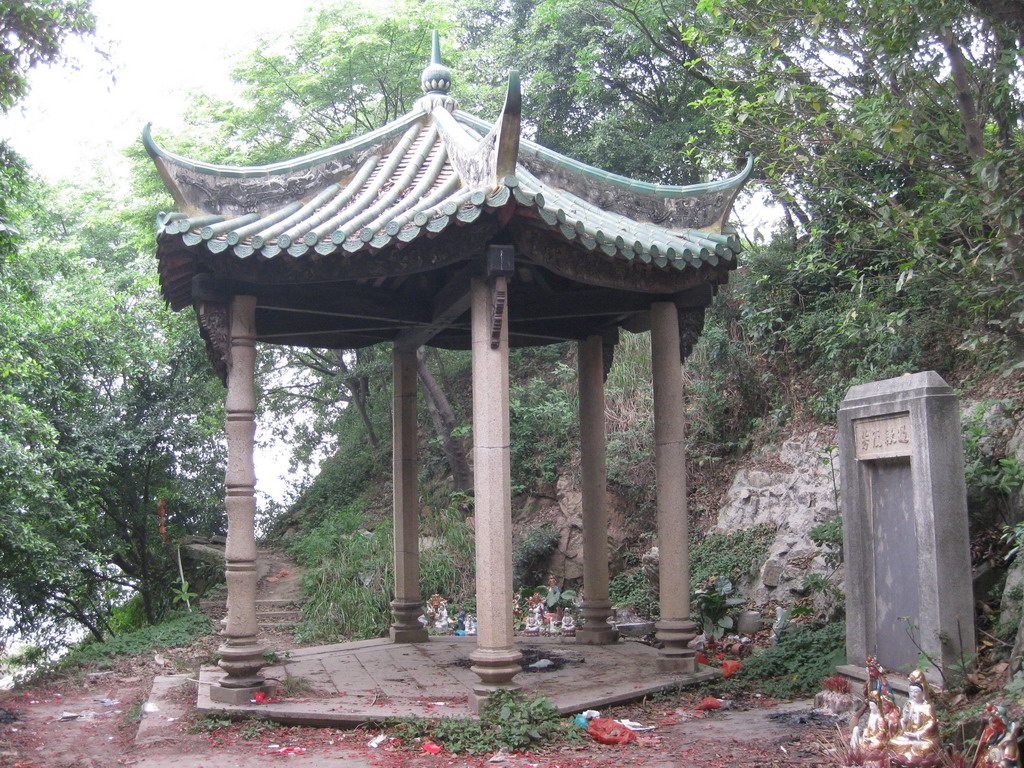 Dongpo Pavilion in Heshan,Jiangmen,Guangdong.